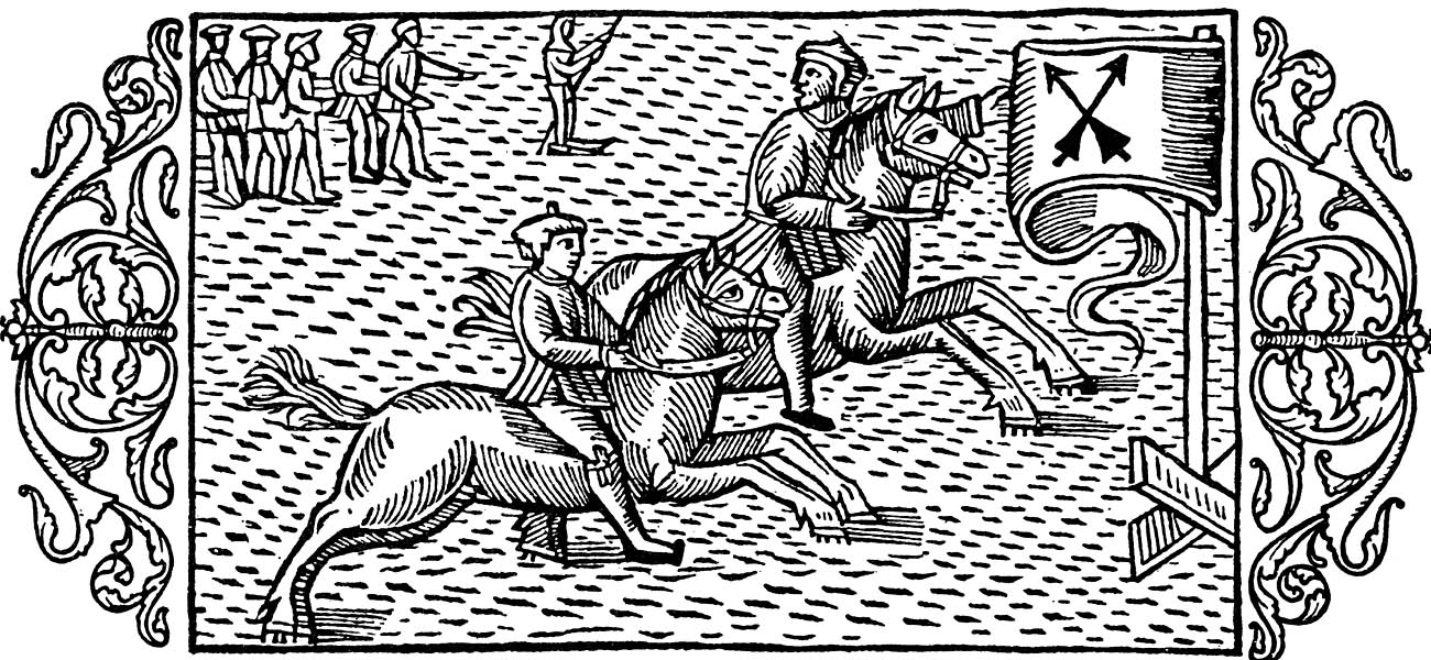 The woodcut shows a race with horse towards a goal consisting of a flag with two crossed arrows. The horses are galloping. The horses seem to be equipped with crampons at their feet. The horses have no saddles.